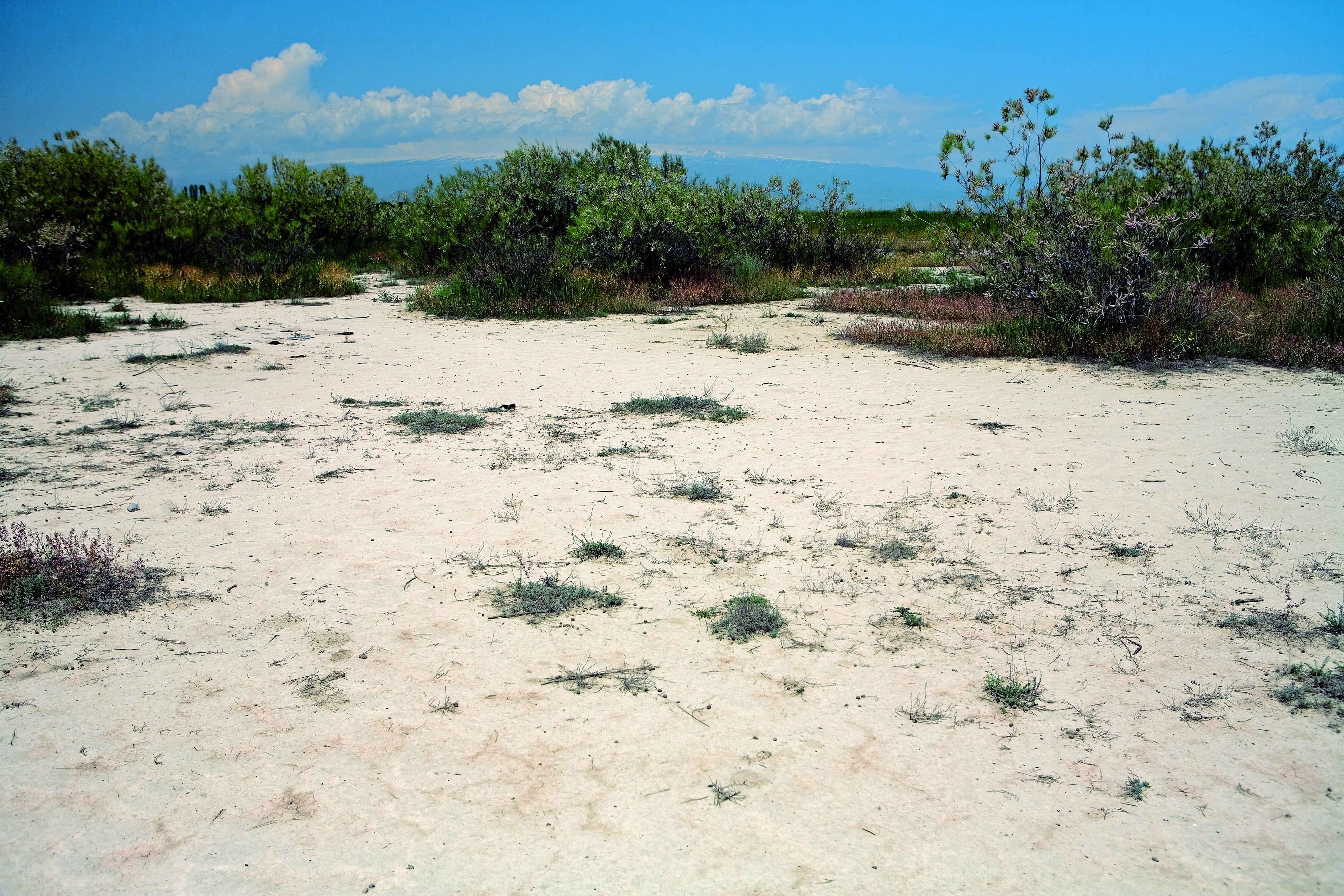 Salt Desert in Yeraskhahun